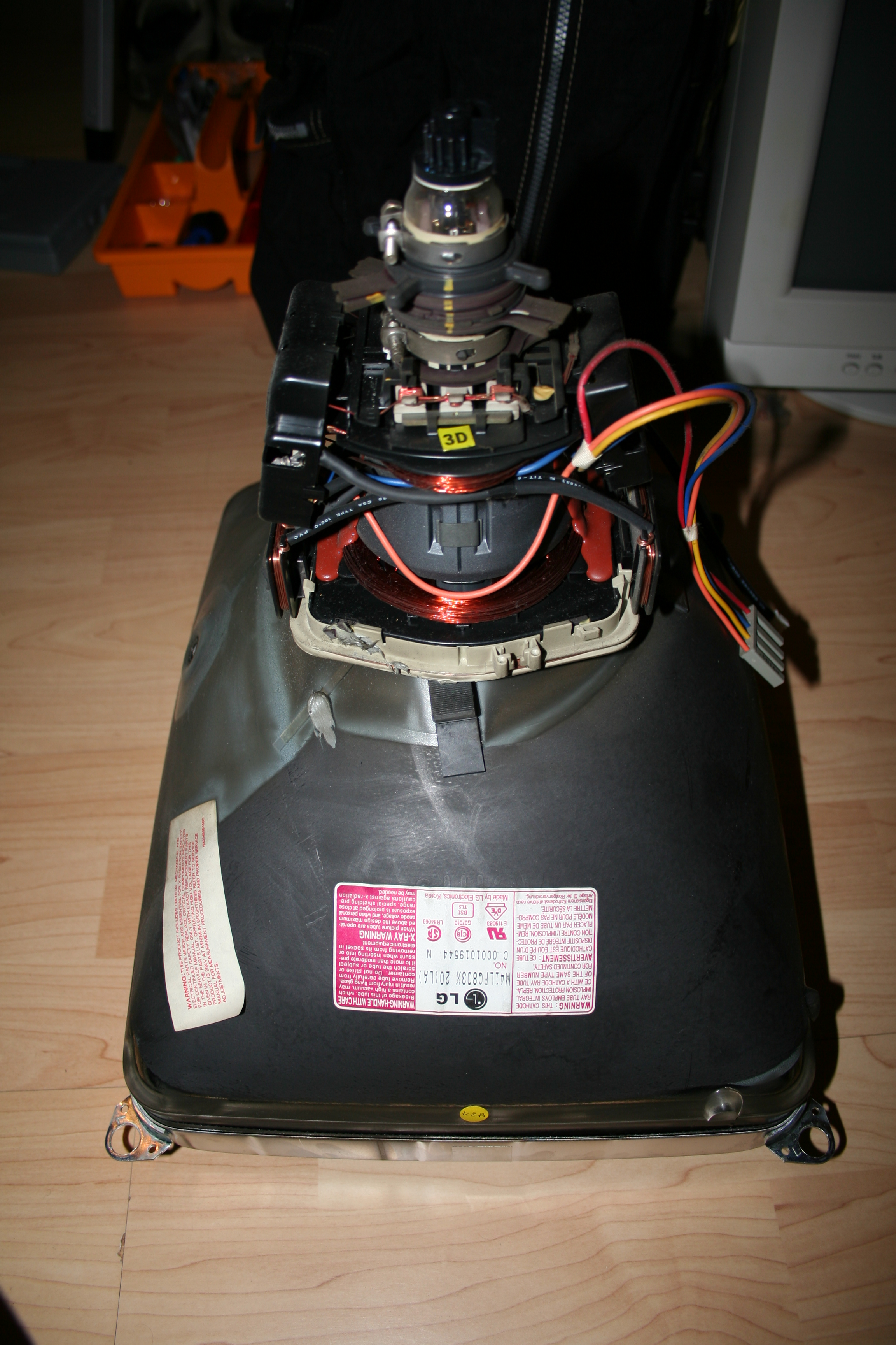 Cathode ray tube with deflection coils.